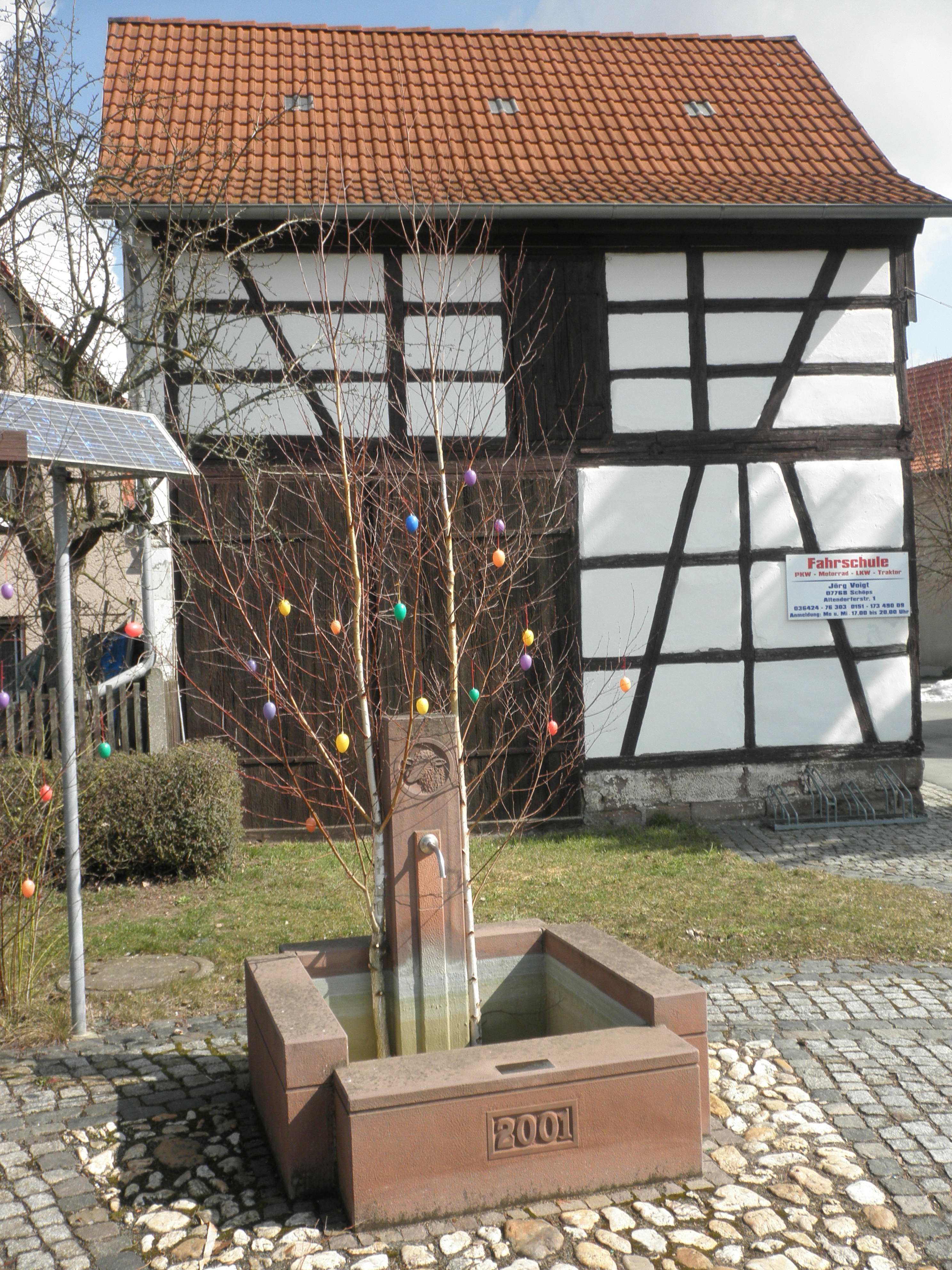 Fountain in Schöps in Thuringia